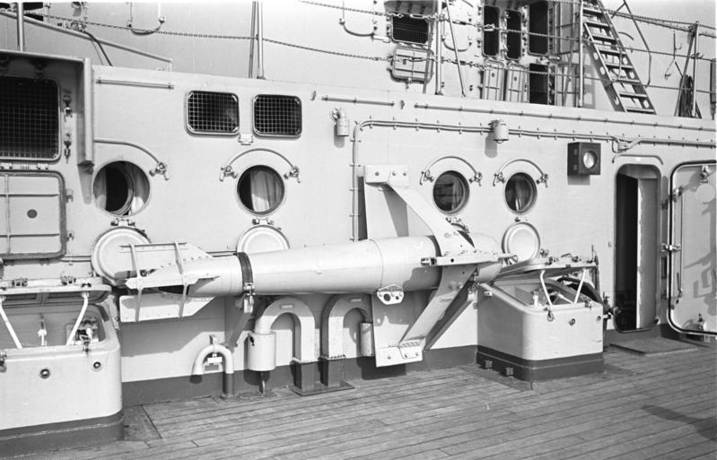 Information added by Wikimedia users.*